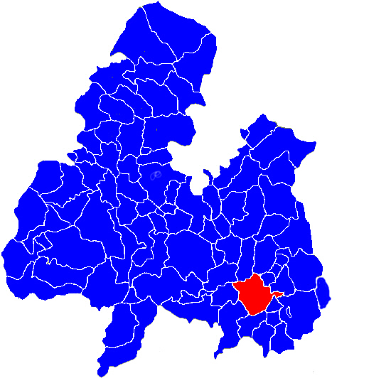 Map showing the location of Thurles civil parish within North Tipperary